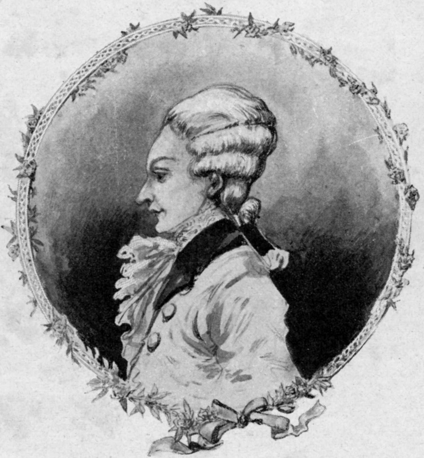 Portrait of Léonard-Alexis Autié, French hairdresser, a favorite of Queen Marie-Antoinette